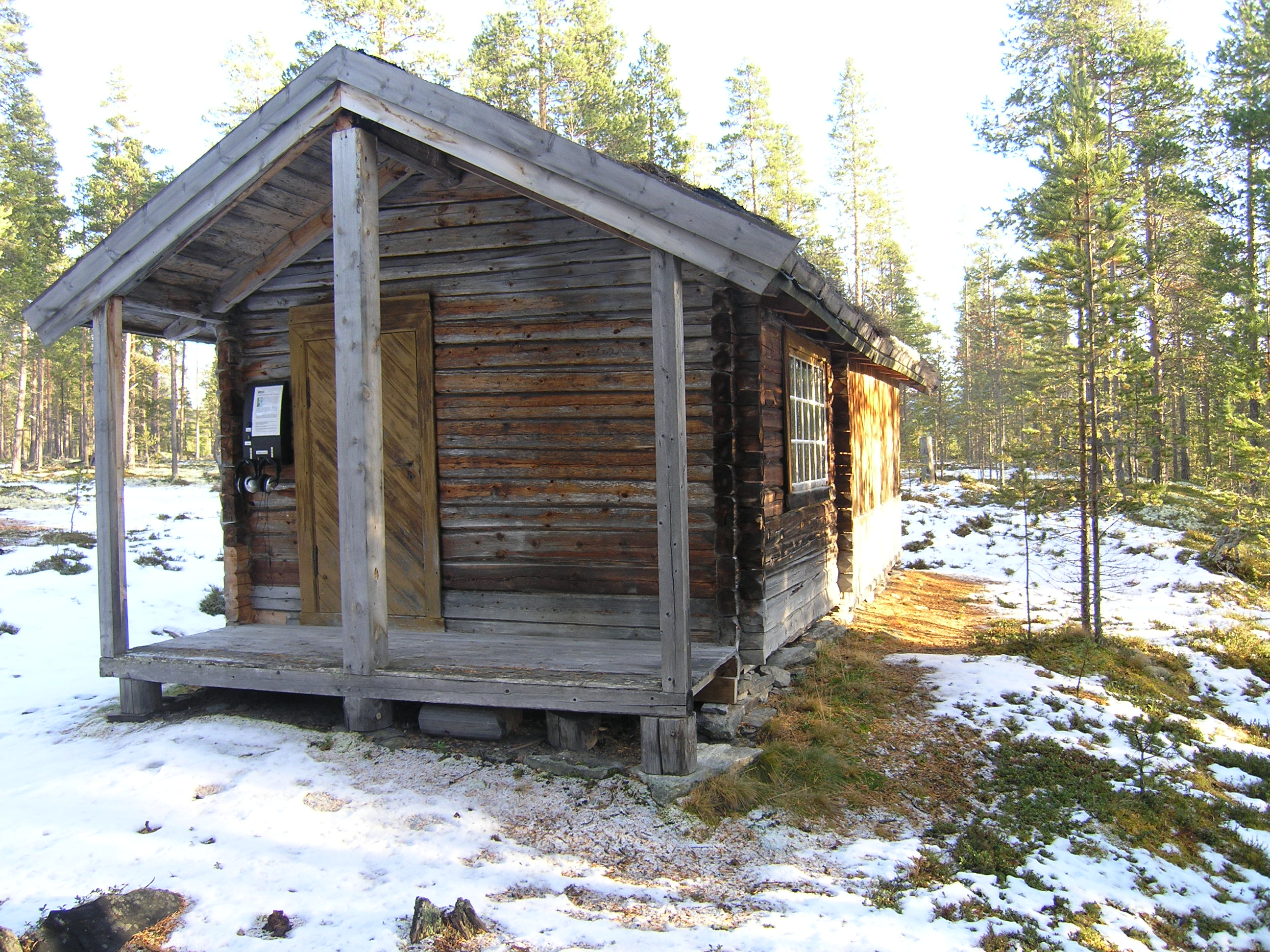 The "Egg", a writing cabin of Ivar Mortensson-Egnund — at Egnund, Hedmark, Norway.